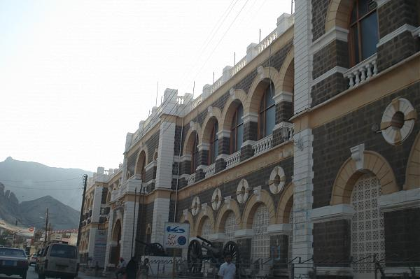 Military Museum in Aden, Yemen